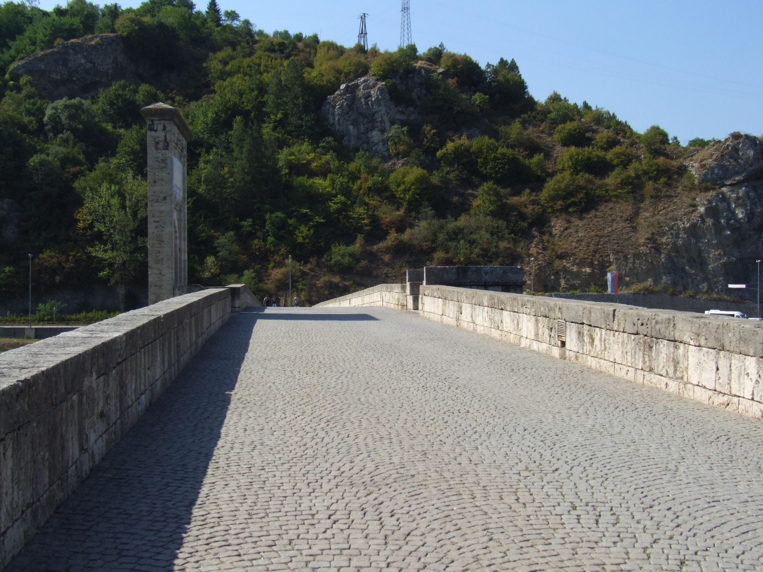 Mehmed Paša Sokolović Bridge, Višegrad